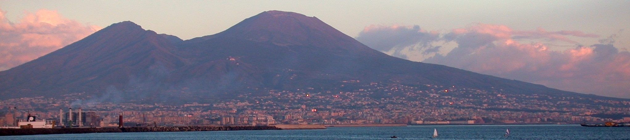 Mount Vesuvius from Naples with sunset lighting